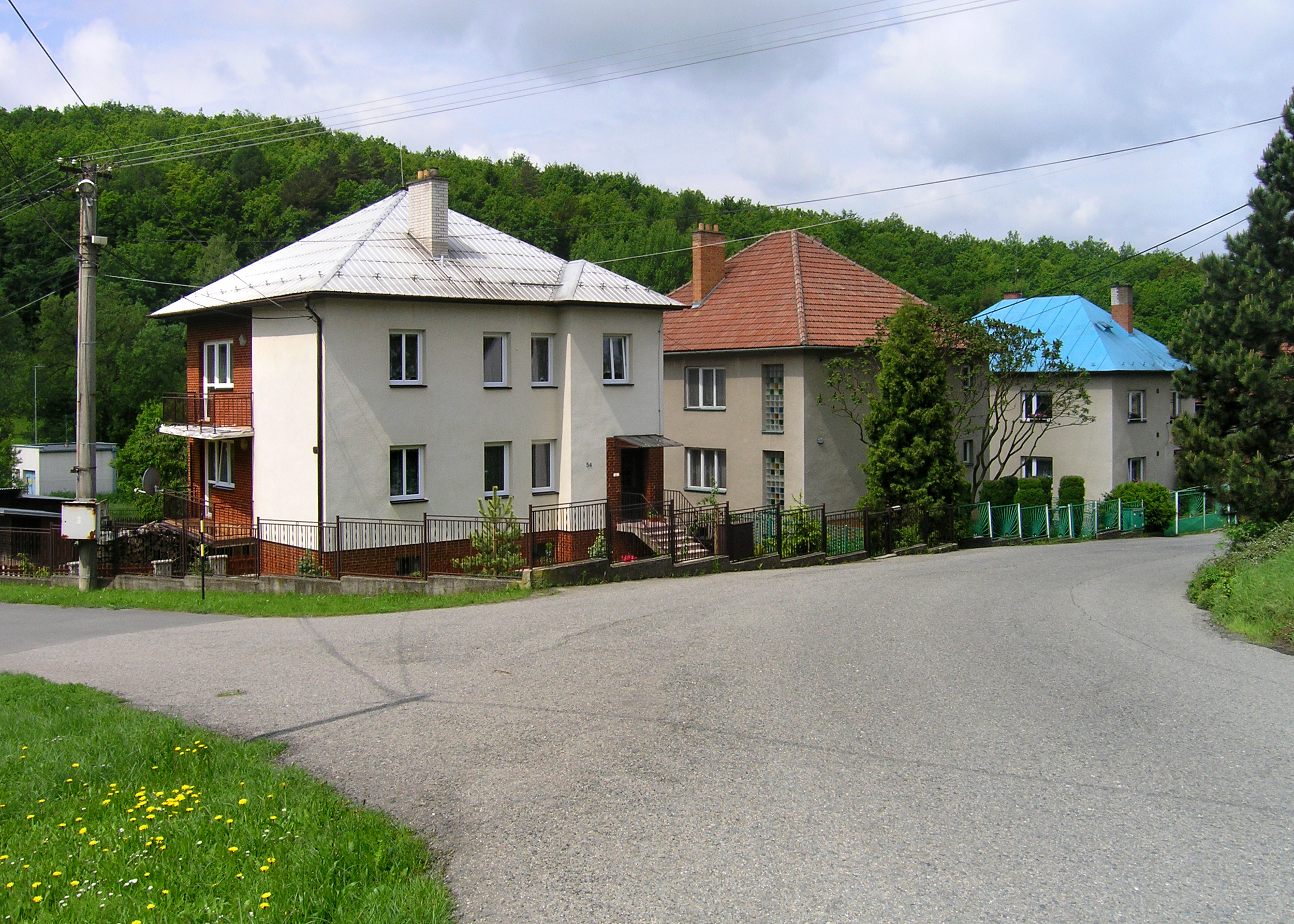 Dešná village, Czech Republic